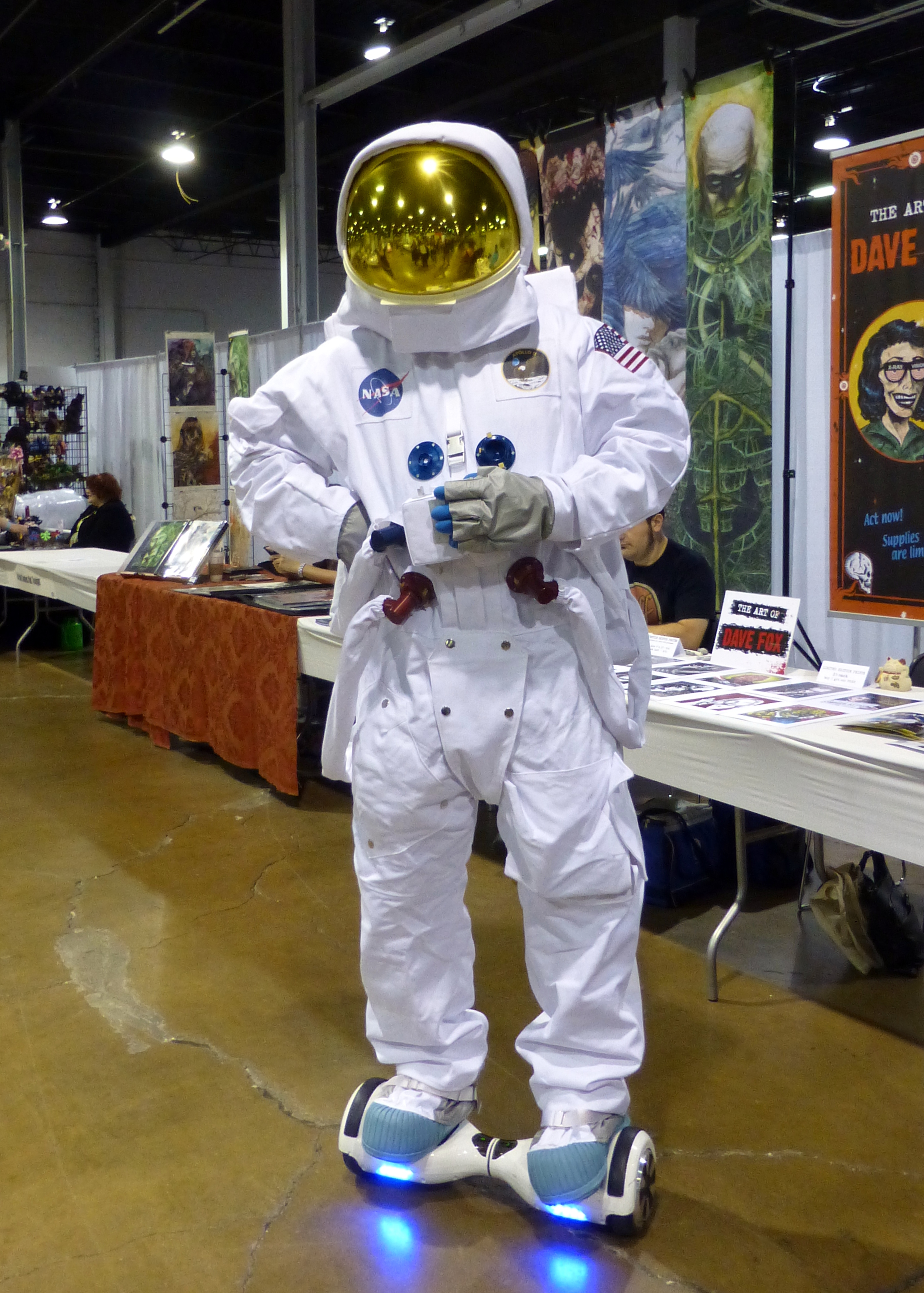 Astronaut. That's one way to get around in a big heavy suit Cosplay at the 2015 Wizard World Chicago.